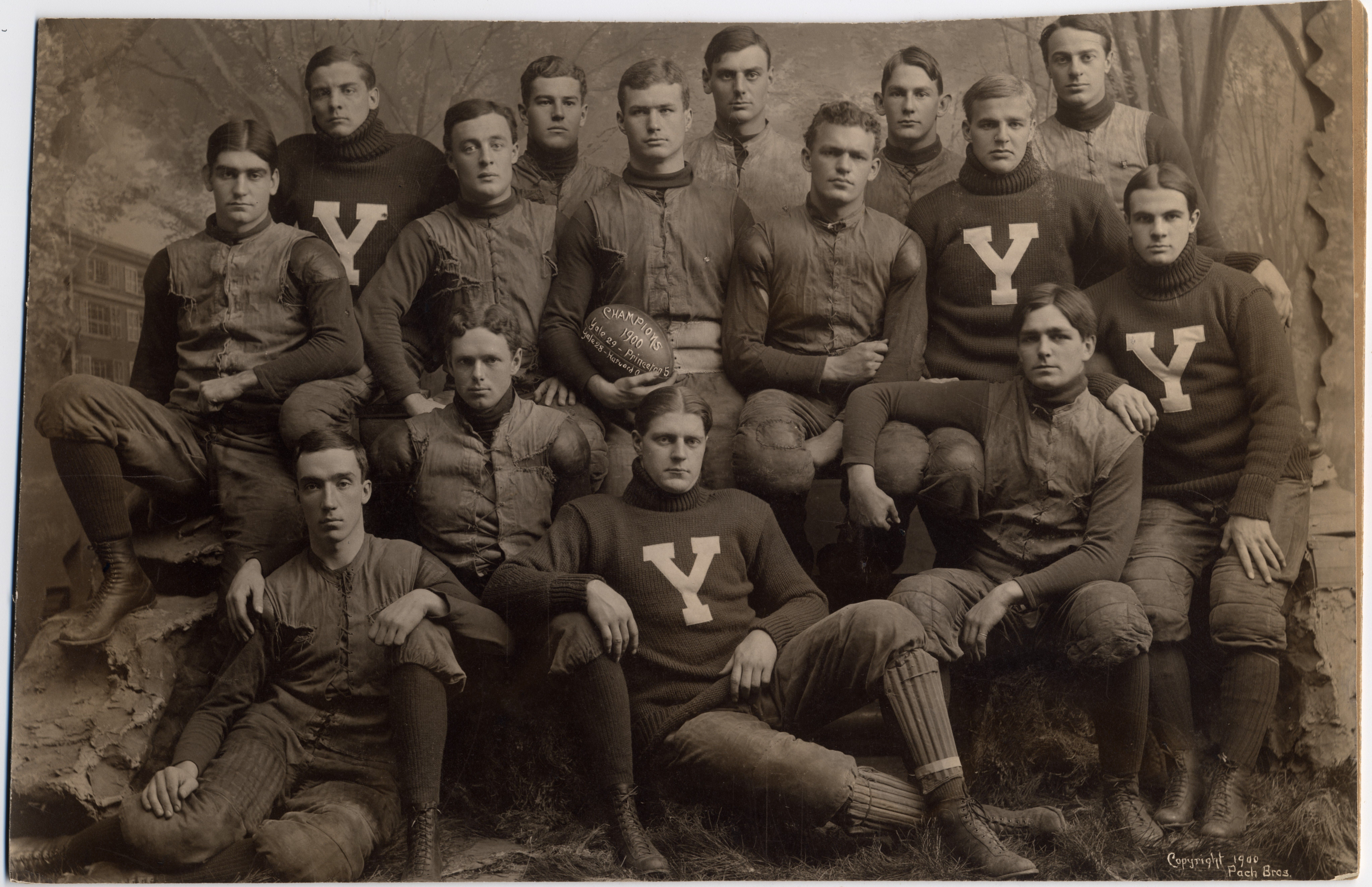 Yale football team picture